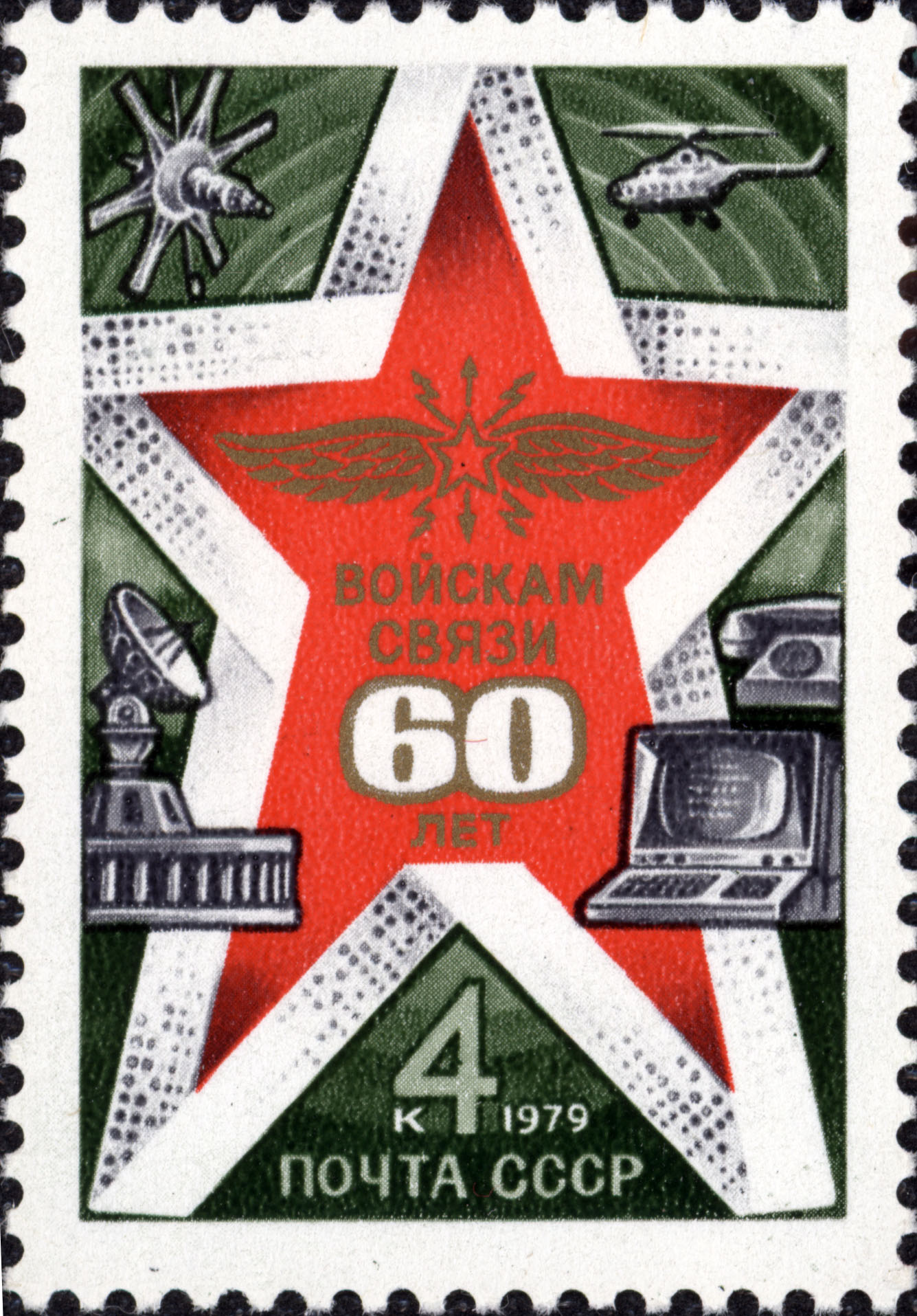 USSR stamp dedicated to 60th anniversary of USSR Army signal corps. Star, signal corps emblem.